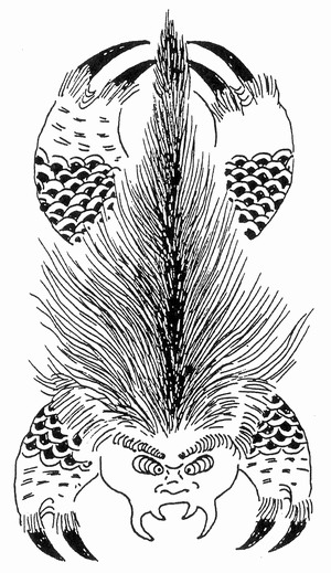 Raijū (雷獣, A beast that falls to earth in a lightning bolt) from the Kanda-Jihitsu (閑田次筆)